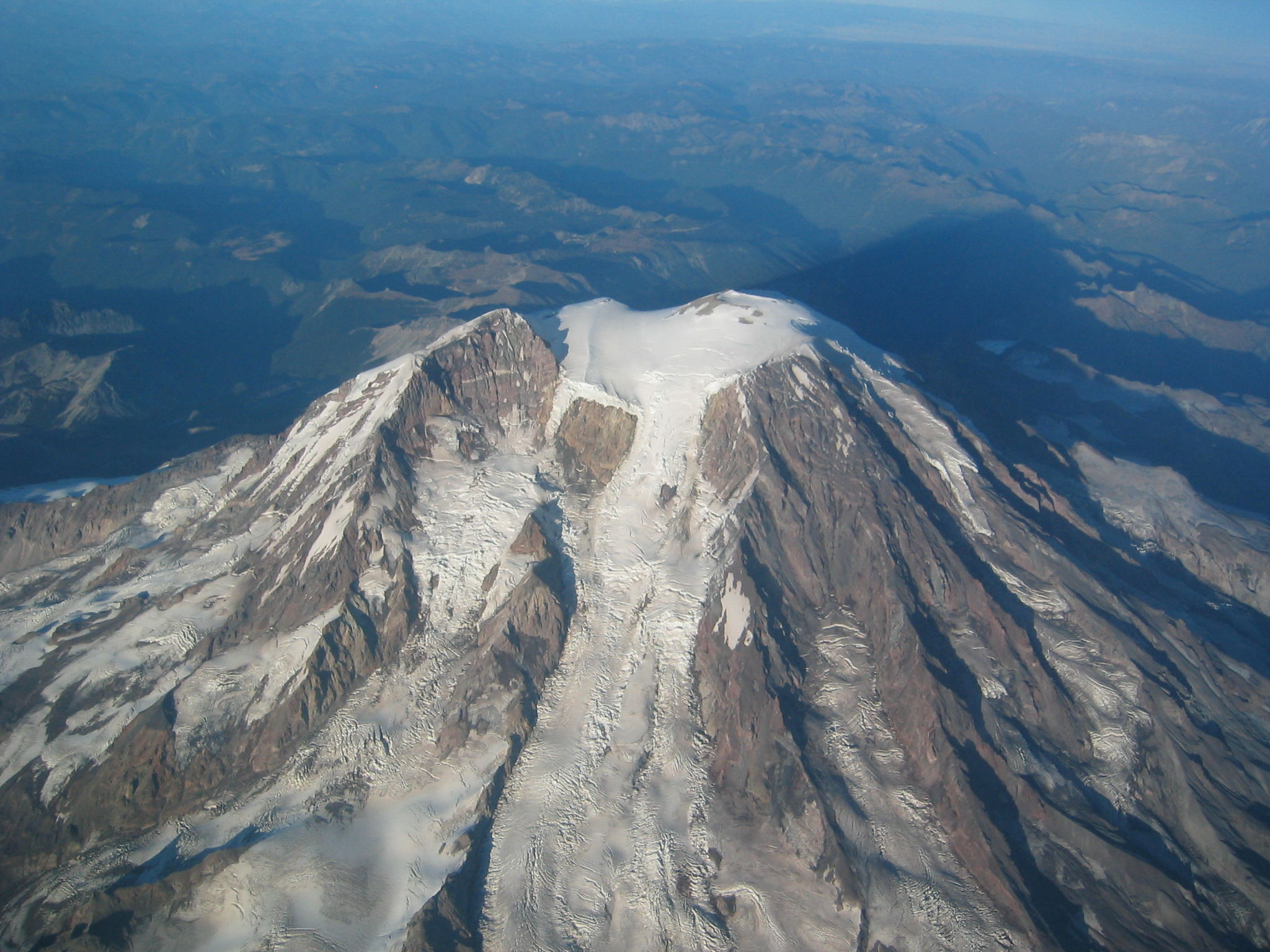 Tahoma Glacier (center) descends from the summit ice cap between St. Andrews Rock and Puyallup Cleaver (left) and Tahoma Cleaver (right). The west crater is a slight depression atop Columbia Crest, the most distant summit in the photo, visible, but not obvious in the image. The east crater is shadowed. Liberty Cap and Point Success bound the ice cap on the left and right respectively. Sunset Amphitheater, at the base of Liberty Cap, is the source of South Mowich and Puyallup Glaciers (lower left). South Tahoma Glacier descends from the headwall below Point Success.